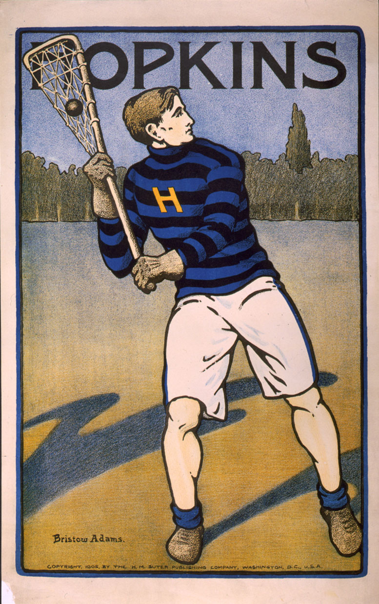 Hopkins student playing lacrosse.